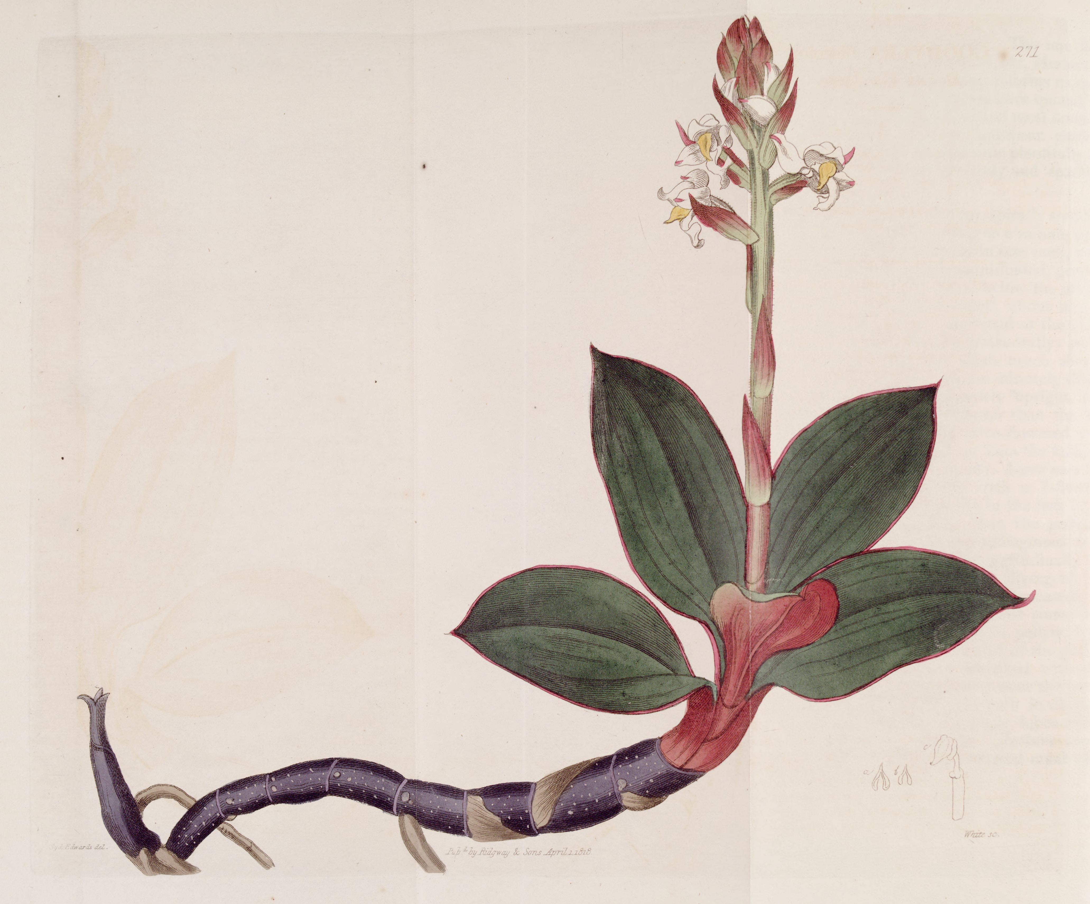 Illustration of Ludisia discolor (as syn. Goodyera discolor)